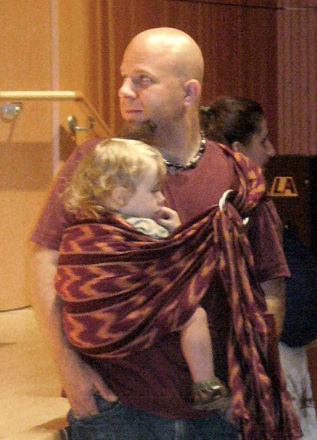 A dad wears his son in a ring sling at the 2006 International Babywearing Conference fashion show. This is at Reed College, in front of the stage.